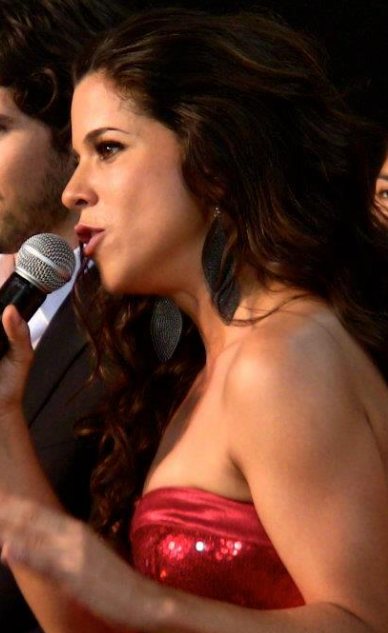 Actress Vanessa Terkes Rachitoff in the press conference of "La Tayson, corazón rebelde". 13 January 2012.